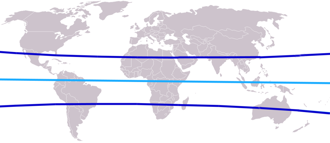 World map showing Equator and Tropics. WARNING: lines are misplaced